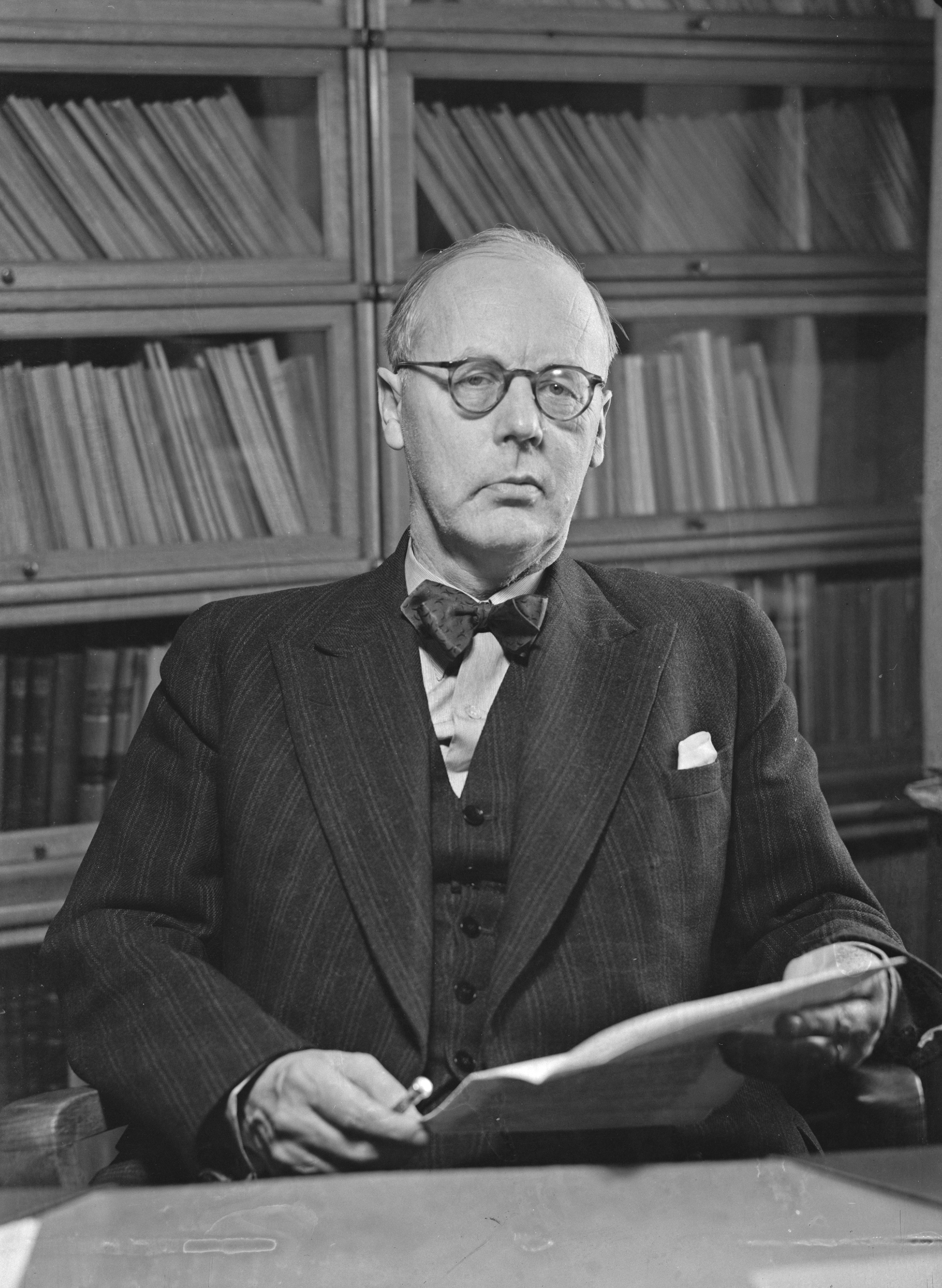 Photograph of the Finnish statistician Gunnar Modeen (1895–1988).